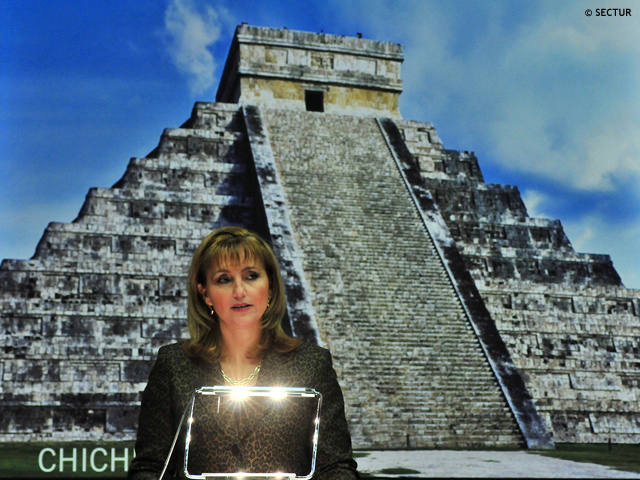 Fitur in Madrid